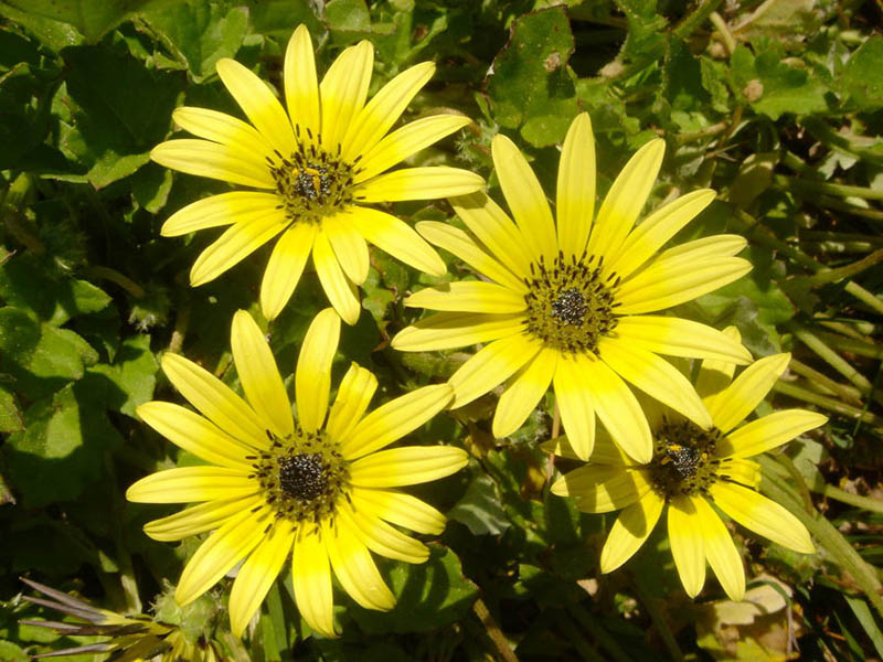 Arctotheca calendula